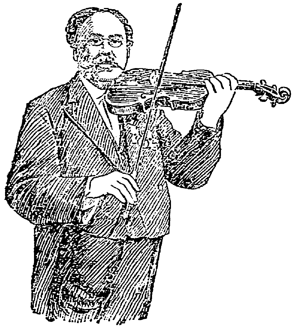 Portrait of German-born United States violinist Jean Joseph Bott (1826-1895)